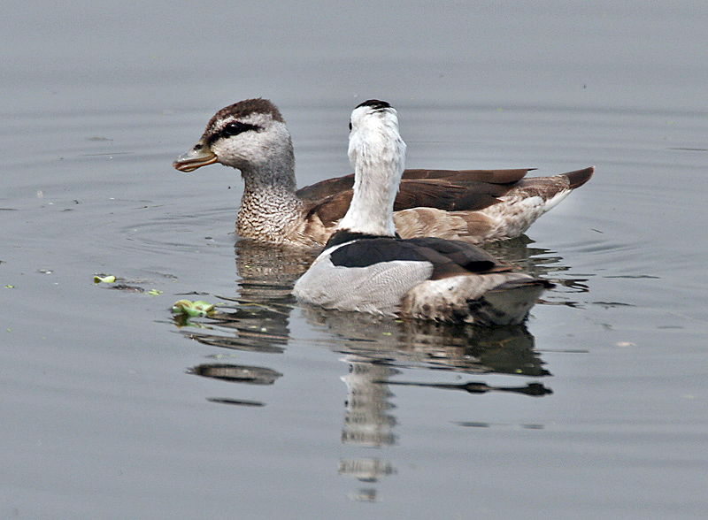 Cotton Pgymy Goose (Nettapus coromandelianus) in Kolkata, West Bengal, India.